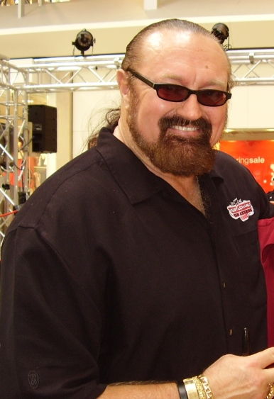 Hillbilly Jim at the "WrestleMania 23 Fan Axxess Tour"'s stop at the Devonshire Mall in Windsor on March 28, 2007. I've cropped this picture (because I'm standing to the right of him) to include just Hillbilly Jim and have released it for use on Wikipedia.